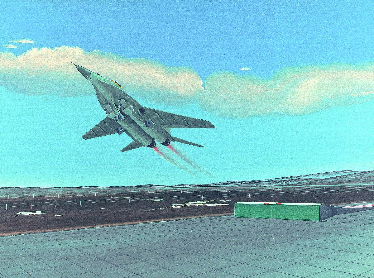 SOVIET FULCRUM TESTED FOR AIRCRAFT CARRIER USE In the 1980's, the Soviets adapted fixed-wing aircraft for their new conventional aircraft carriers. The MiG-29 FULCRUM and other aircraft were adapted and evaluated for ramp-assisted takeoff at Saki naval airfield on the Crimean Peninsula.